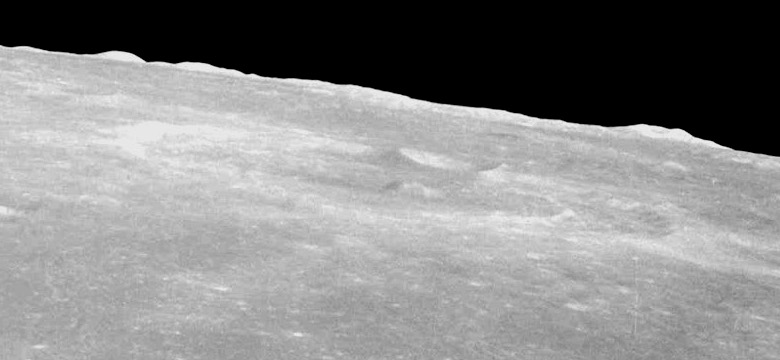 Oblique view of Taruntius, on the moon, facing west.